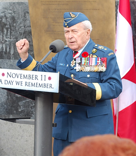 Retired Major-General Richard Rohmer.